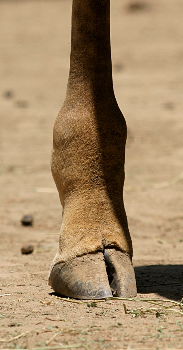 The right-rear foot of a Masai Giraffe at the San Diego Zoo in San Diego, California, USA. This image shows the giraffe being an even-toed ungulate.